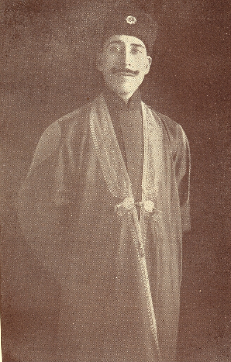 Photograph of Ikbal Ali Shah